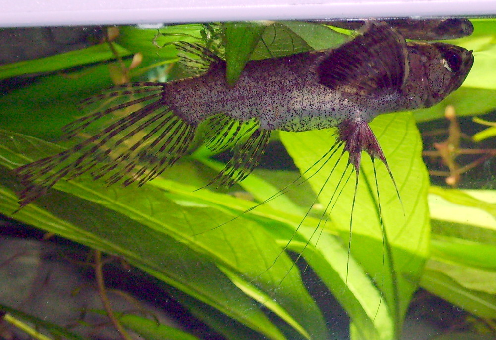 Pantodon buchholzi - freshwater butterflyfish in a domestic aquarium